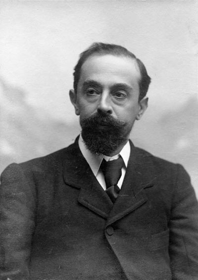 Portrait of Joan Maragall, photograph from 1903